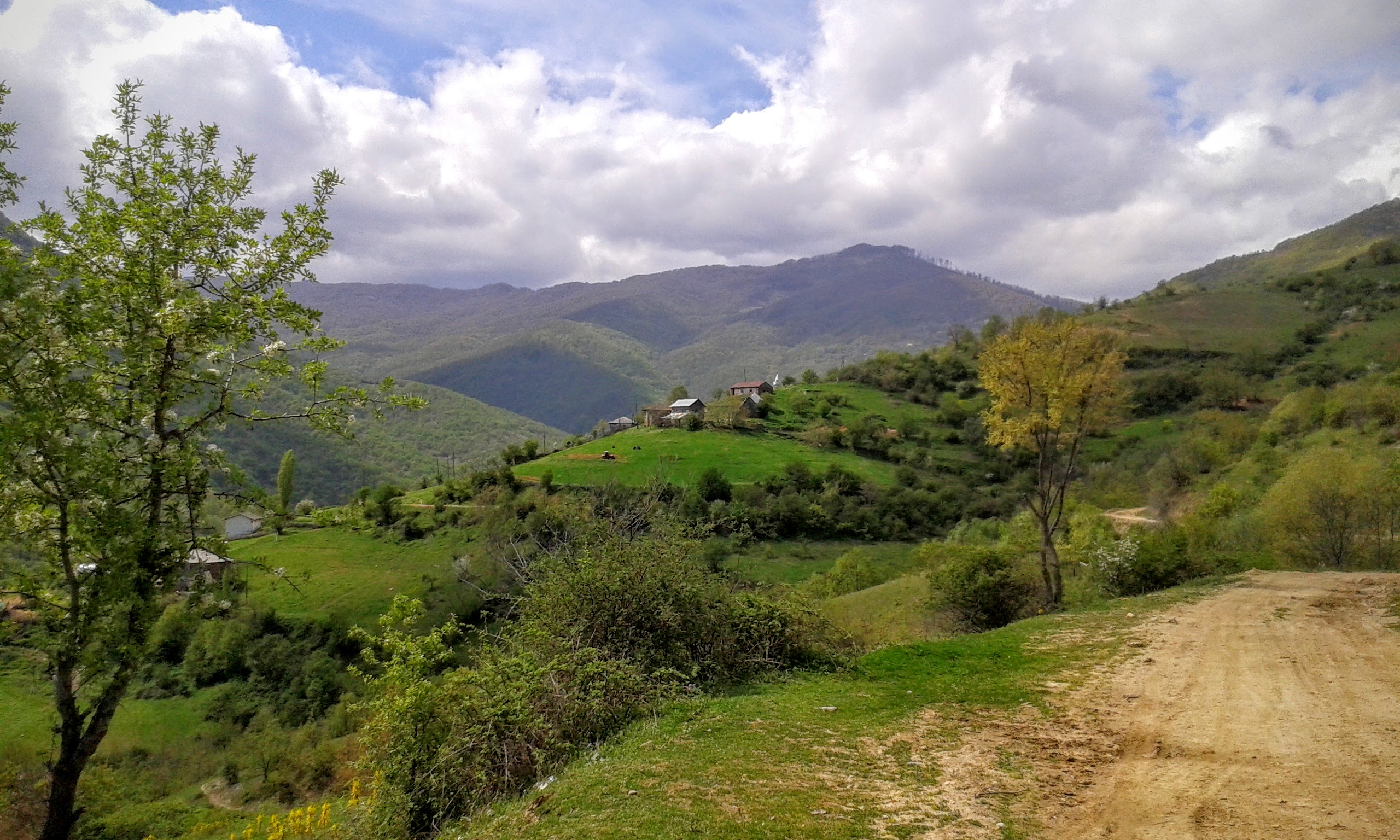 View of the village Tisovica, Macedonia